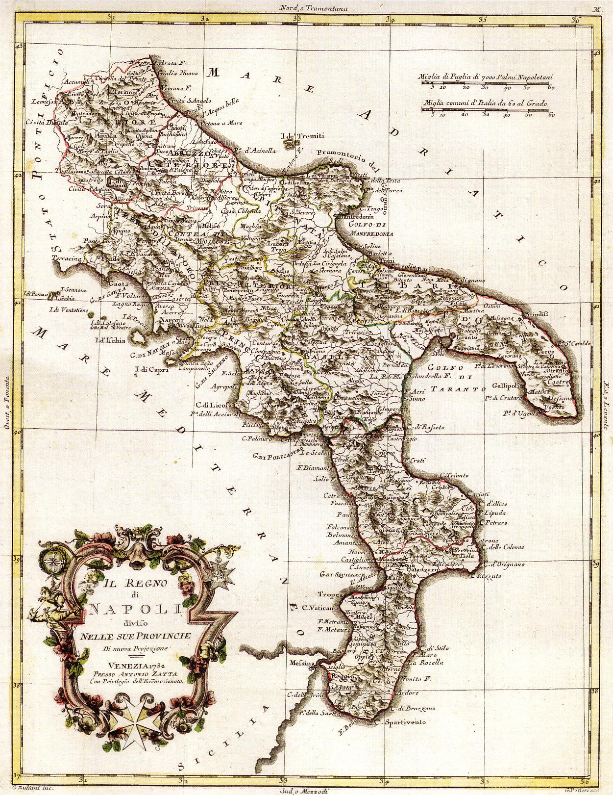 A. Zatta, "Il Regno di Napoli diviso nelle sue Provincie", Venice 1782